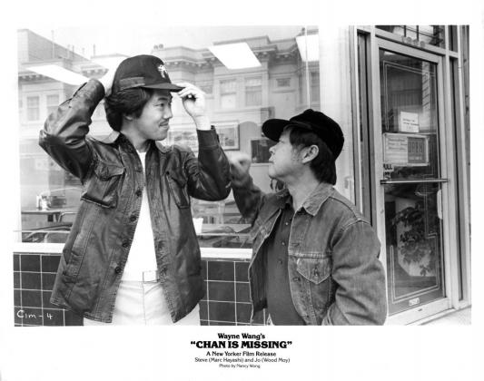 Actors Marc Hayashi and Wood Moy in front of the Garden Restaurant, near Kearny & Clay Street in San Francisco's Chinatown Press kit photo by New Yorker Films. 1981 photo by Nancy Wong